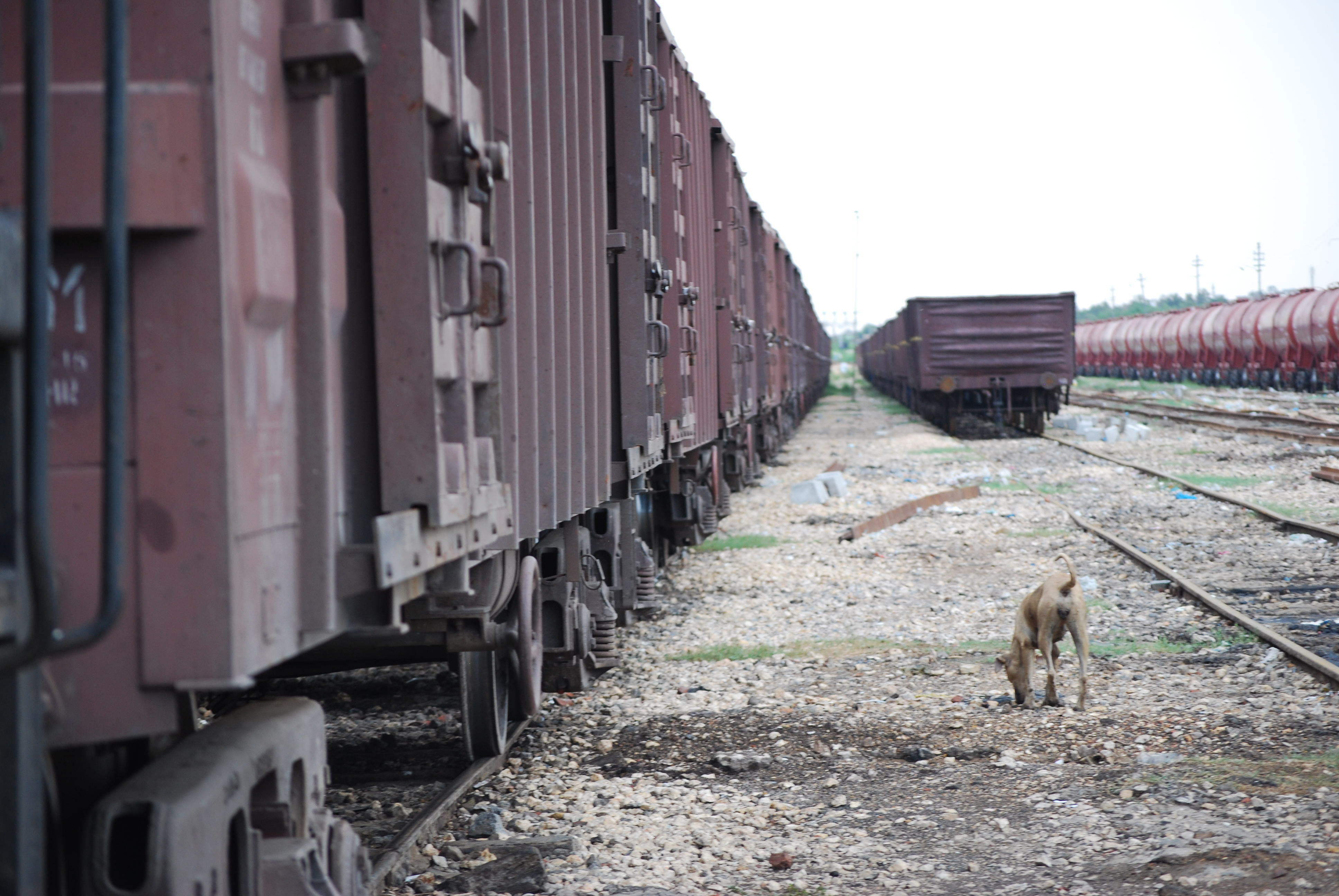 Kotri Railway Station This is a photo of a monument in Pakistan identified as the SD-30